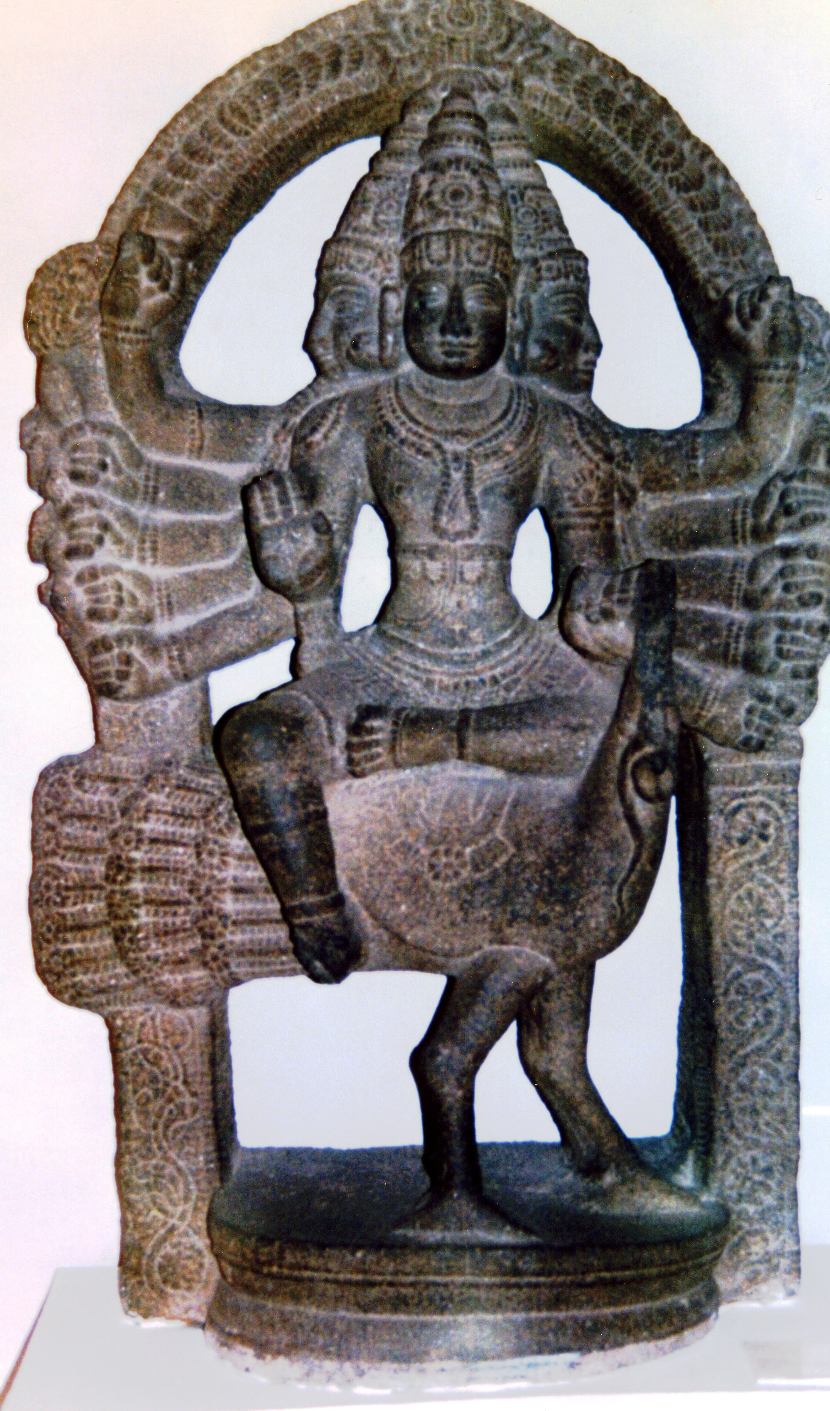 Murugan, National Museum of India, New Delhi.